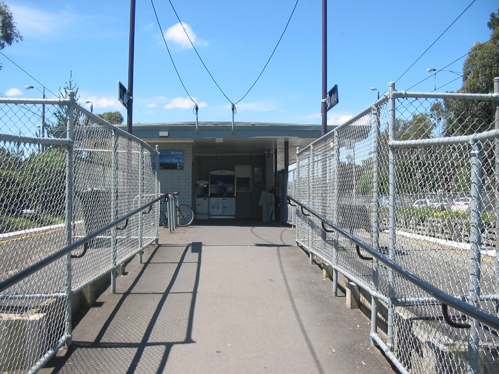 Entrance to Ringwood East. Photo taken by myself